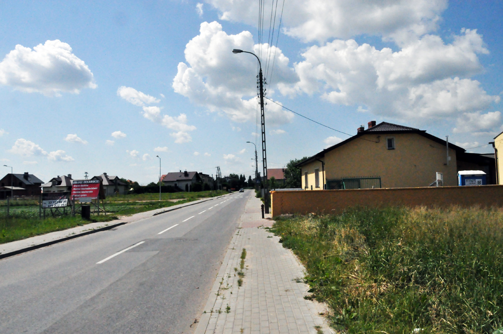 Postępu street